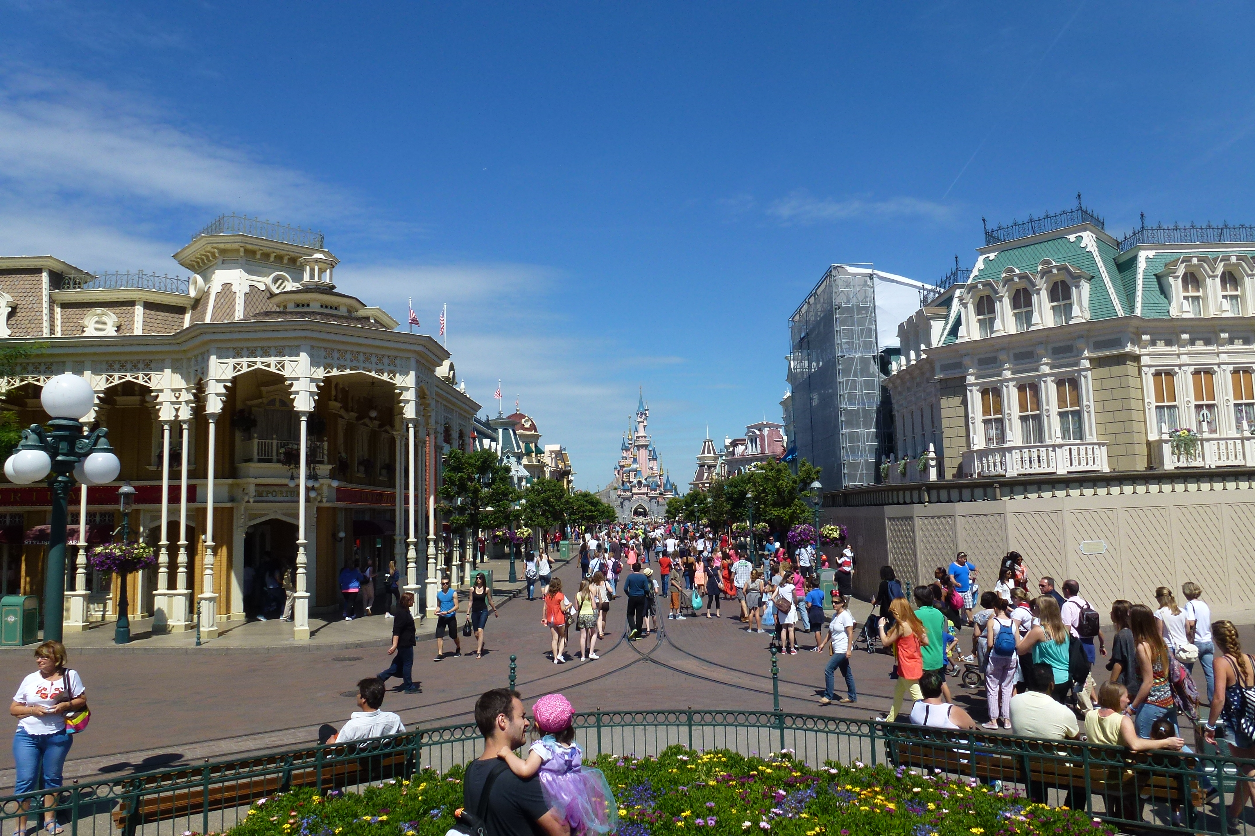 77700 Chessy, France